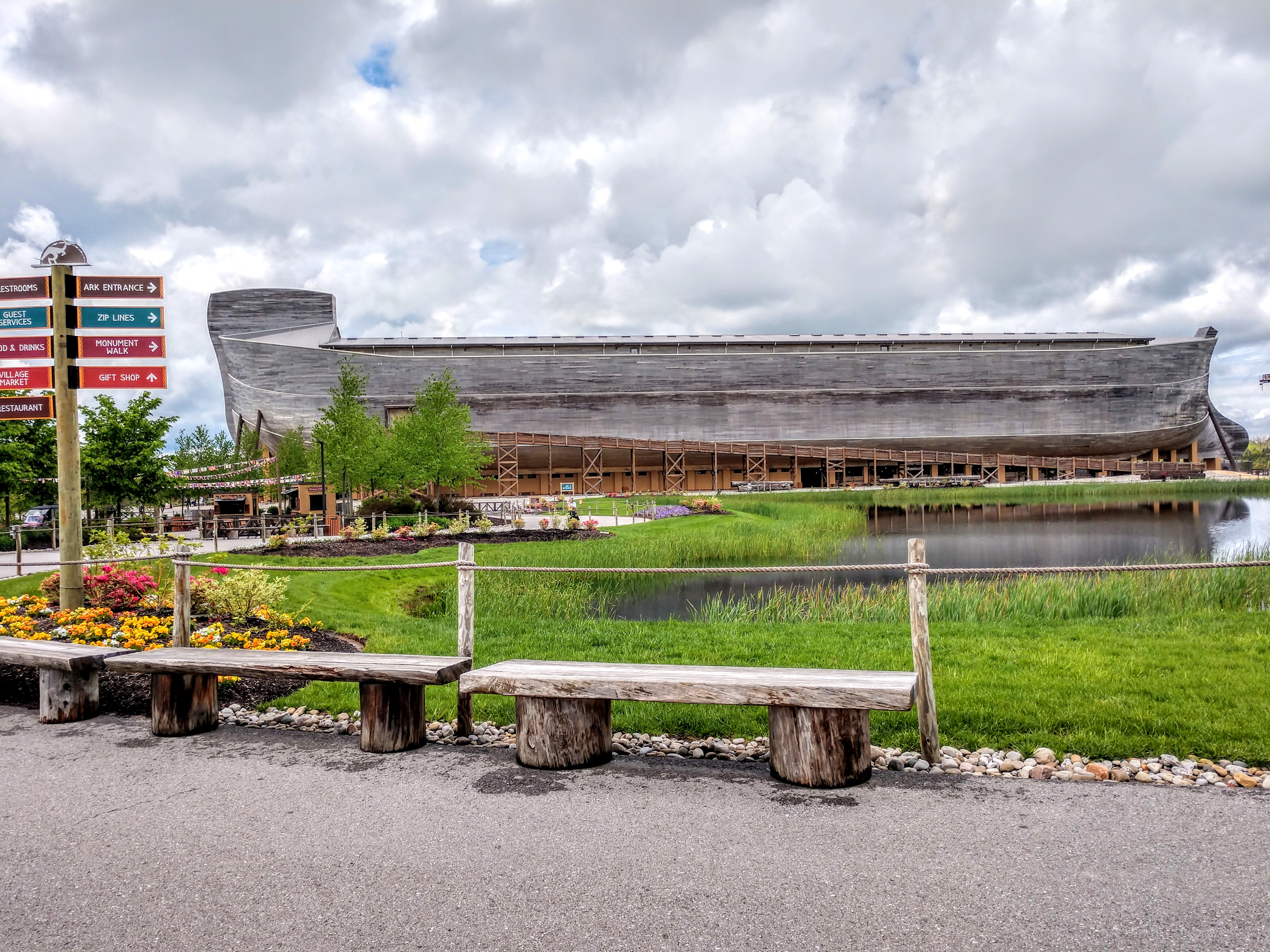 Ark Encounter across pond